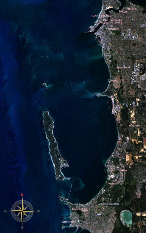 Satellite image of Garden Island and Cockburn Sound, Western Australia.